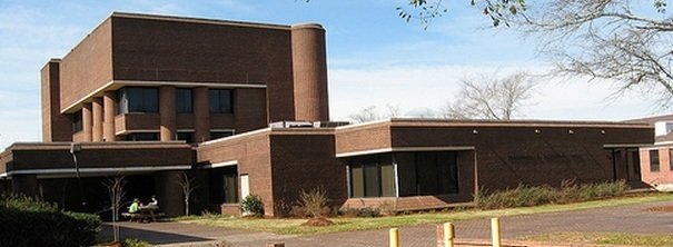 College of Veterinary Medicine -Fredrick D Patterson Hall